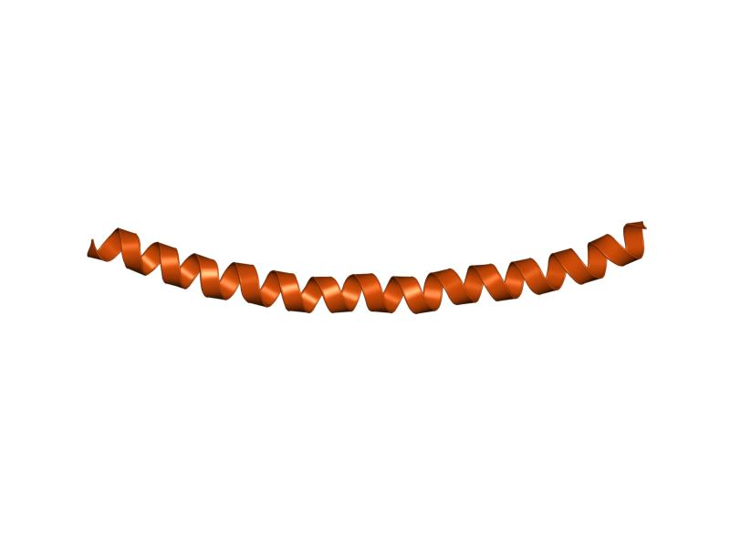 Cartoon representation of the molecular structure of protein registered with 1ifk code.